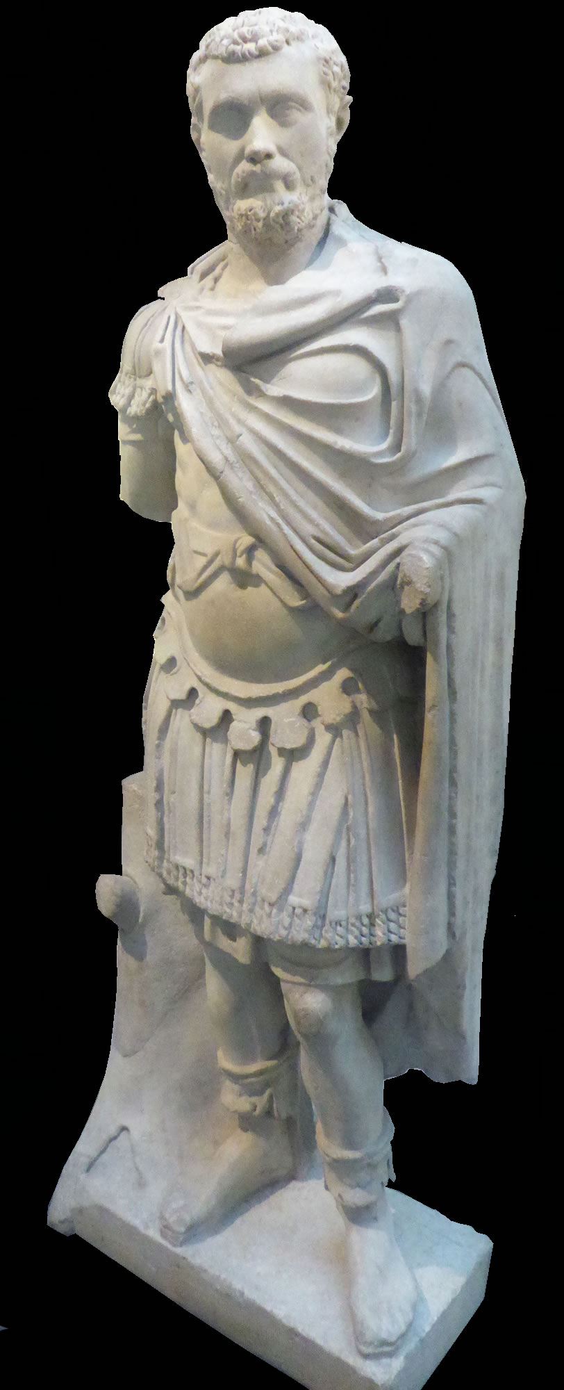 Statue of Septimius Severus, British Museum 1802, 0710.2. Found in Alexandria (Egypt)